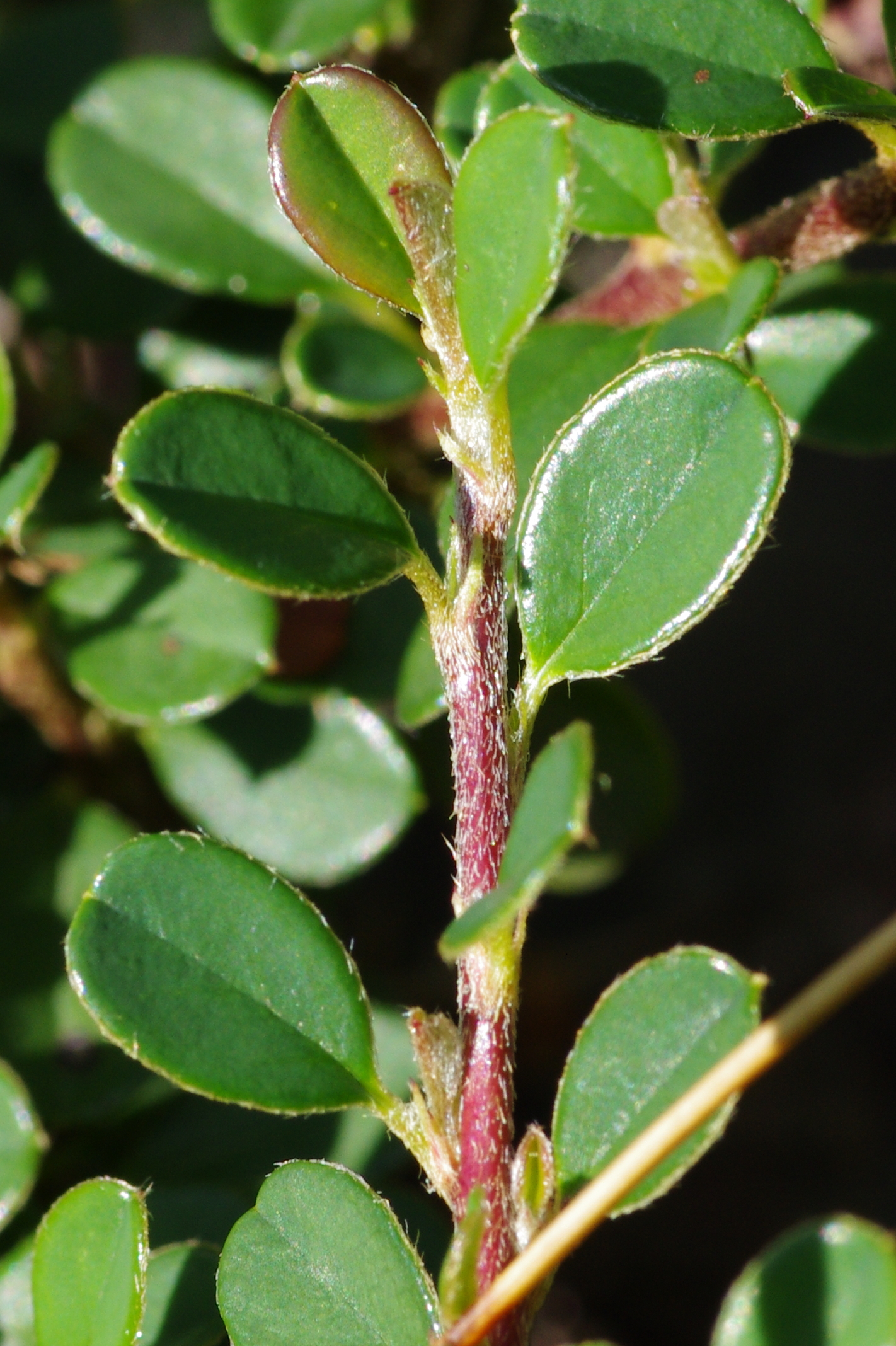 Cotoneaster microphyllus var. thymifolius at the ÖBG Bayreuth